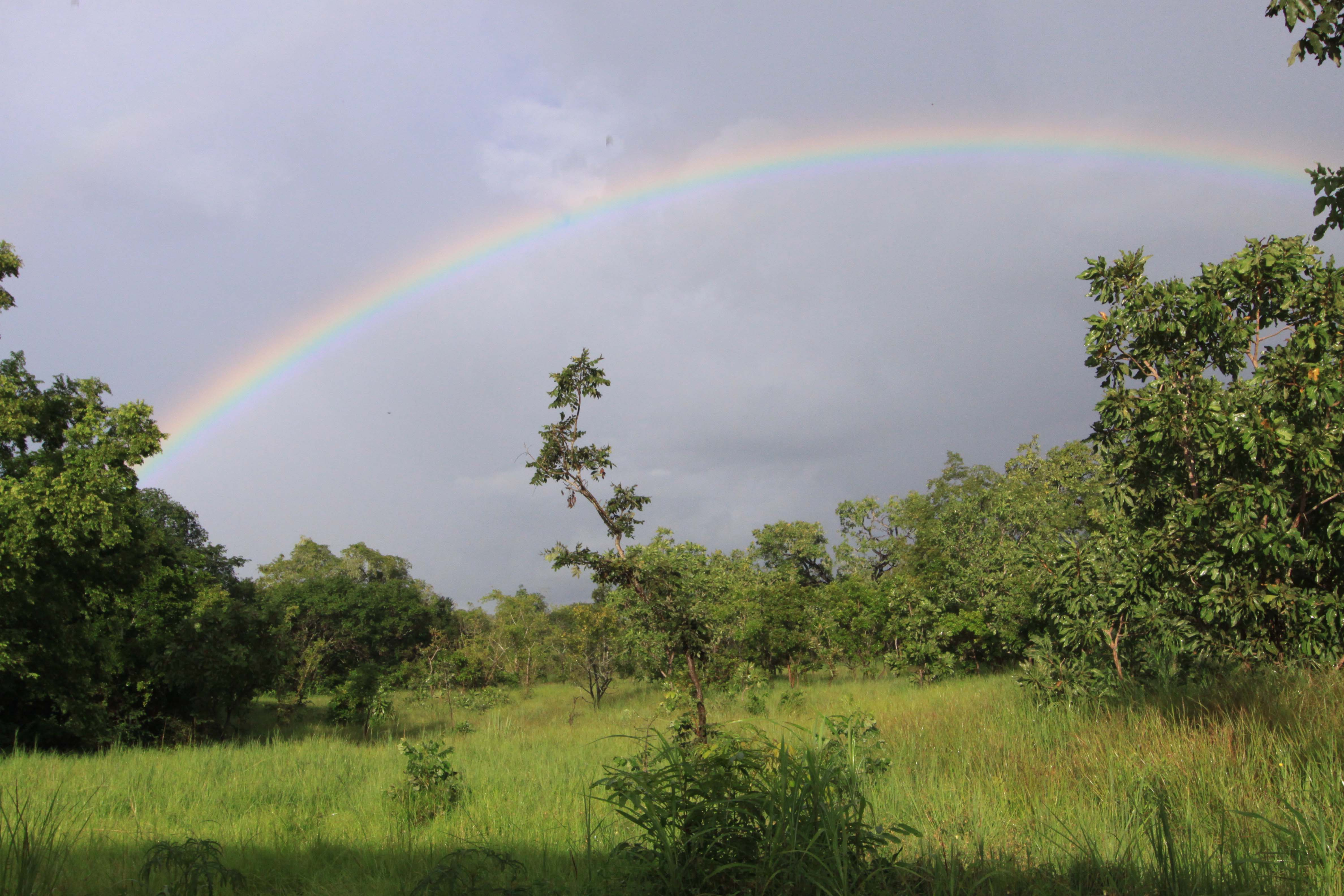 Comoe NP savannah with rainbow